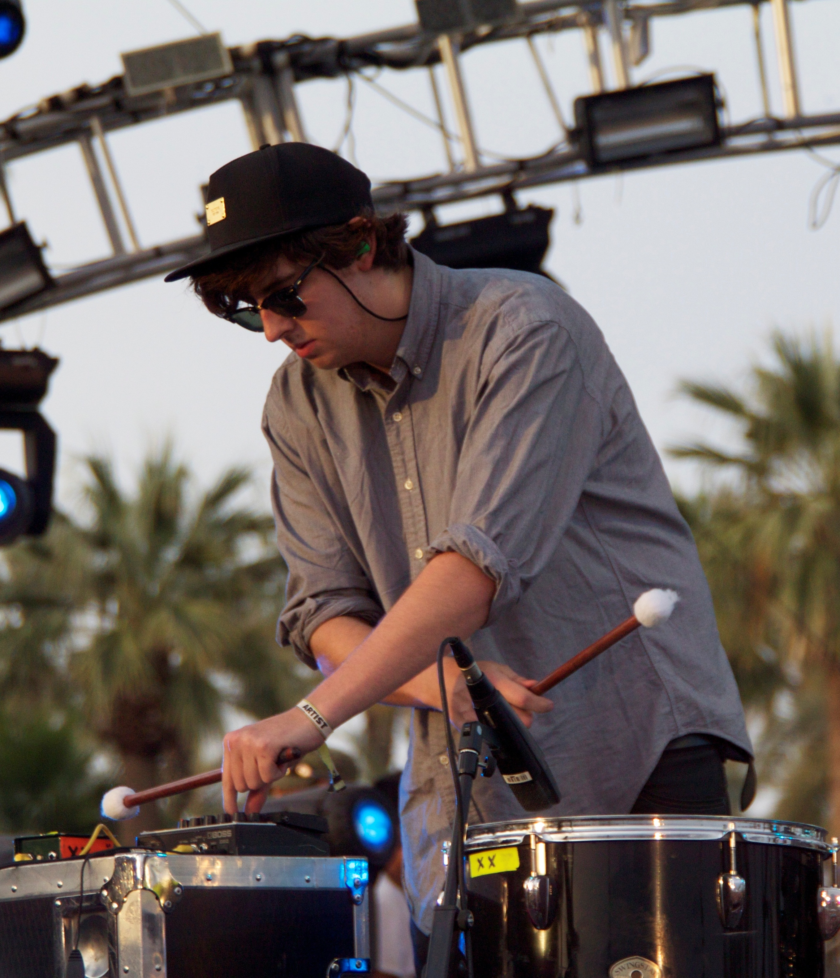 Jamie Smith performing with The xx at Coachella, 2010